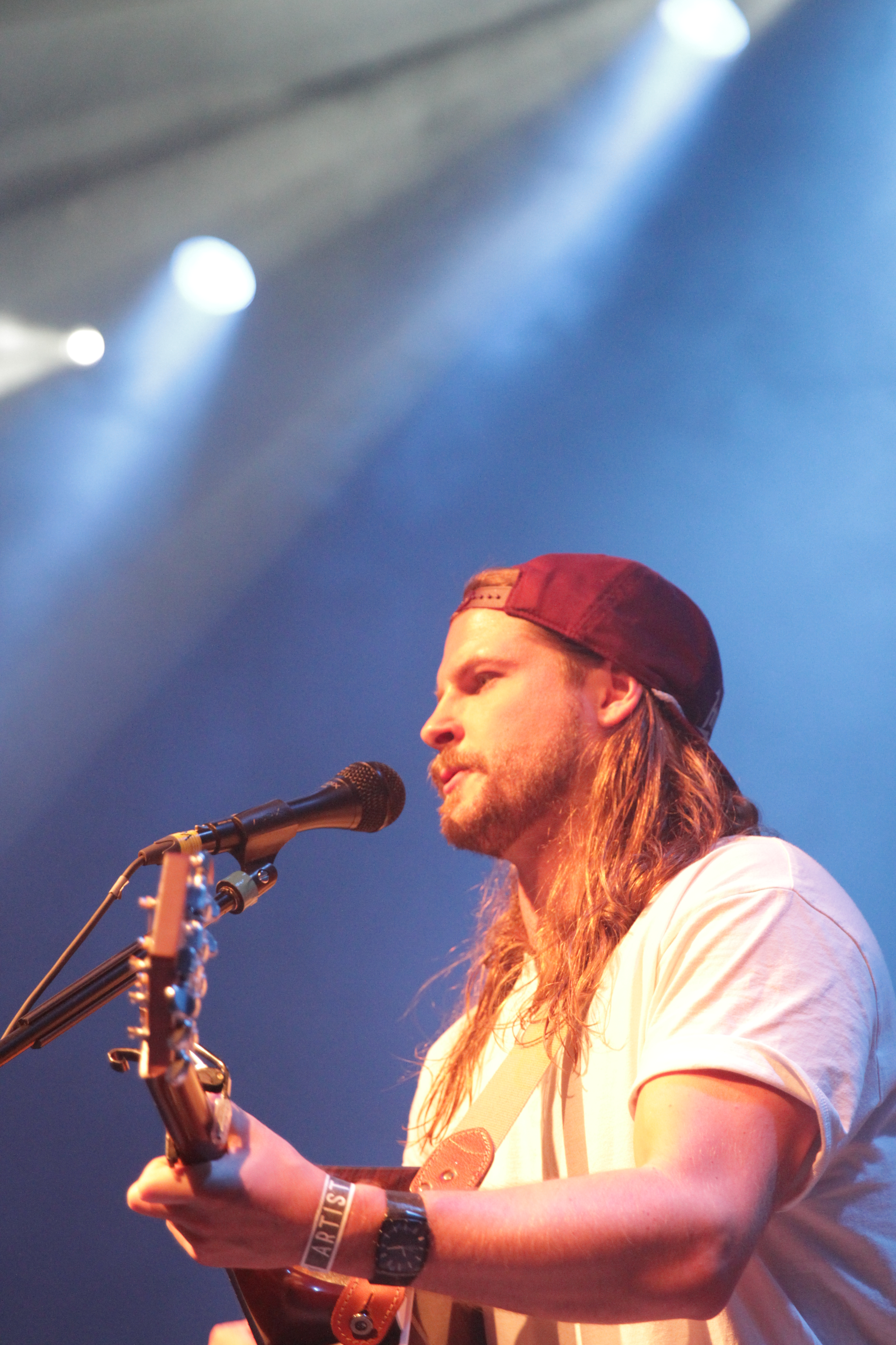 Mighty Oaks auf dem Way Back When Festival 2014.